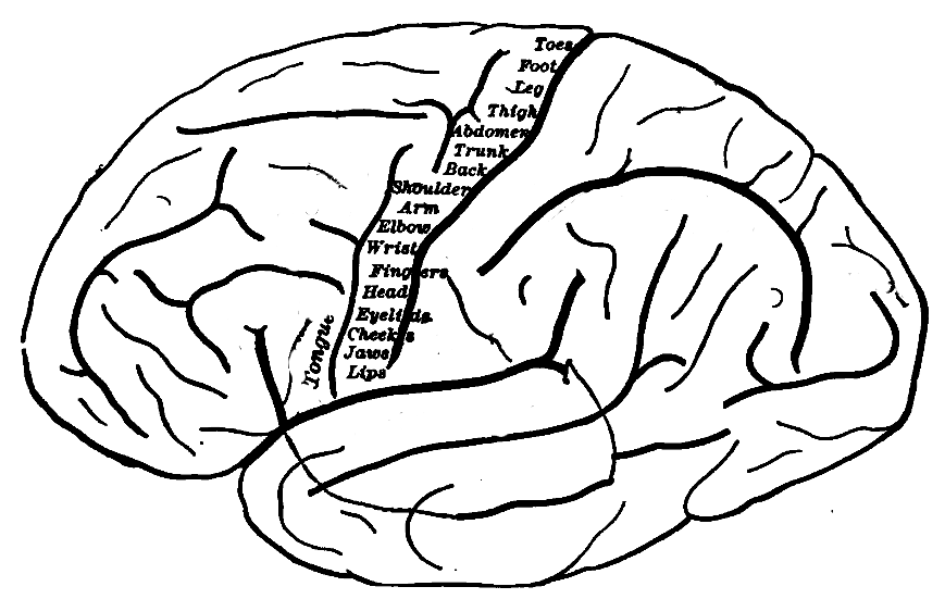 Topography of the primary motor cortex, on an outline drawing of the human brain. Different body parts are represented by distinct areas, lined up along a fold called the central sulcus.